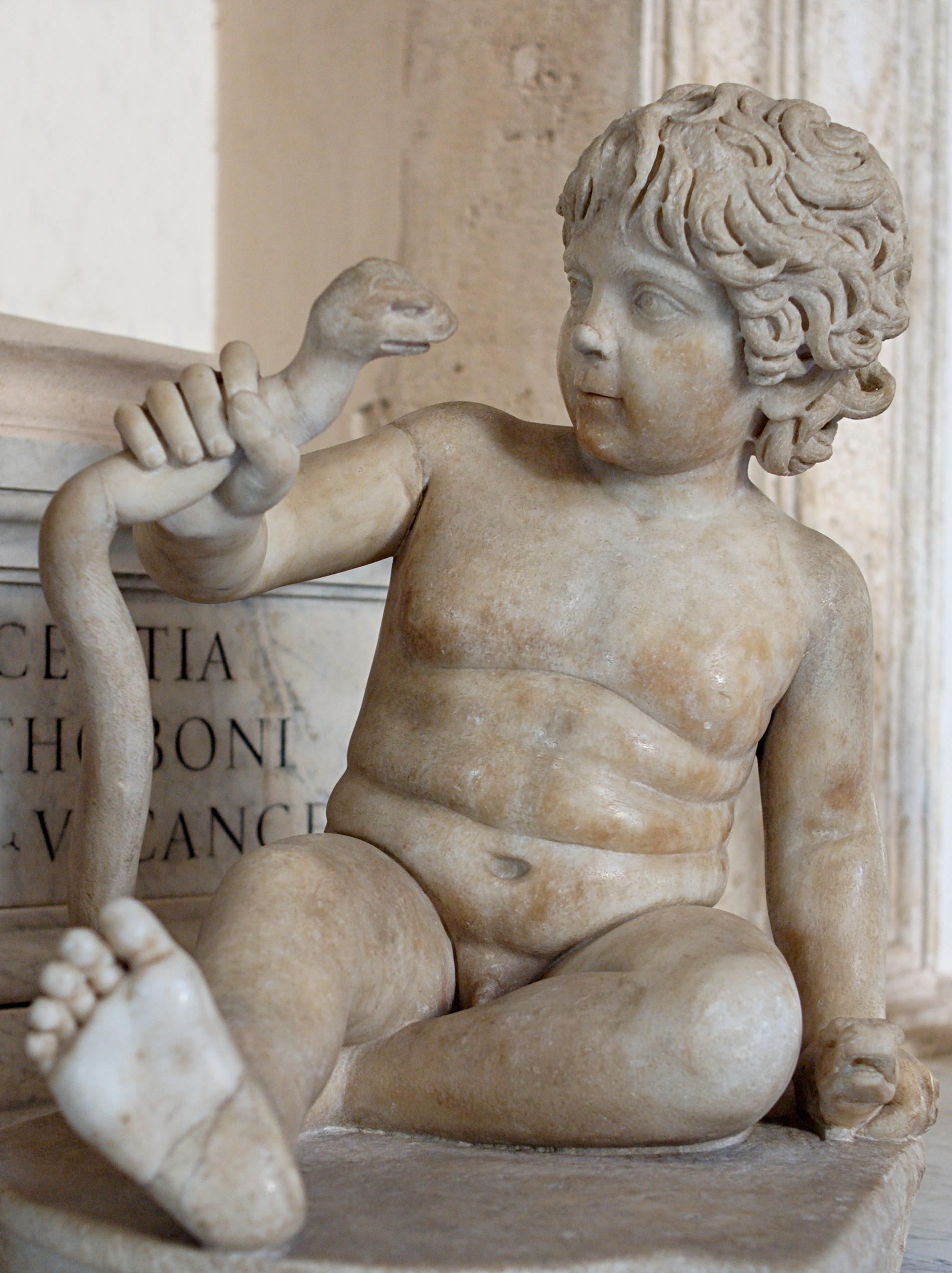 Herakles as a boy strangling a snake. Marble, Roman artwork, 2nd century CE.